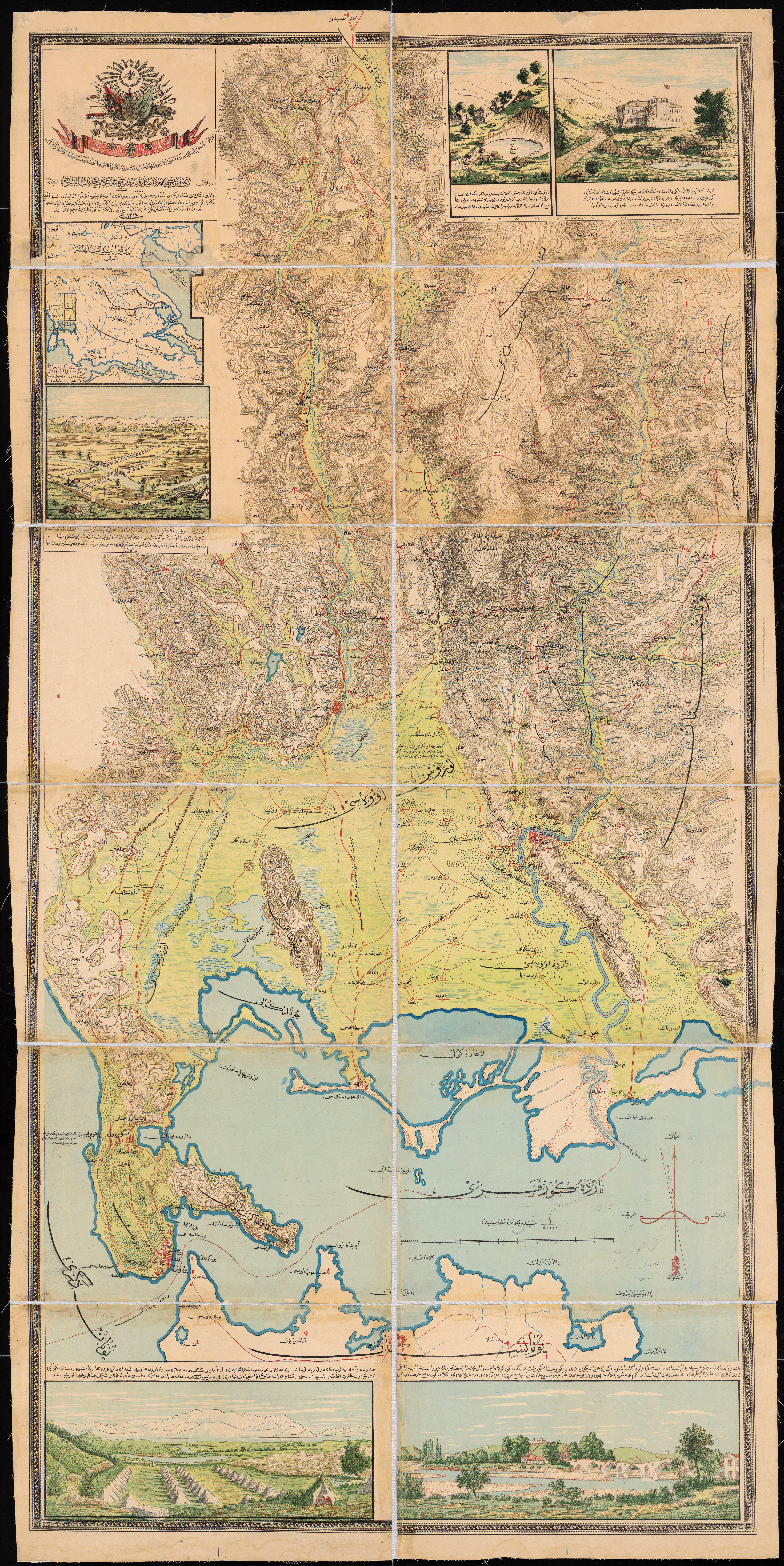 Ottoman map of the south part of the Vilayet of Ioannina, drawn by Halil Ibrahim Efendi, in 1896. Colour lithography by the Imperial School of Military Art, Istanbul, 1896 (Islamic Year 1314). Nikos D. Karabelas map collection, Actia Nicopolis Foundation, Preveza, Greece.